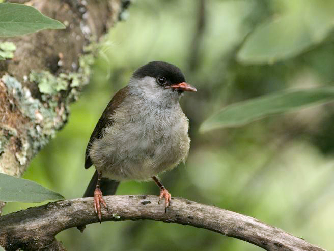 Immature Bush Blackcap Lioptilus nigricapillus at Giant's Castle Camp, KwaZulu-Natal Drakensberg, South Africa.